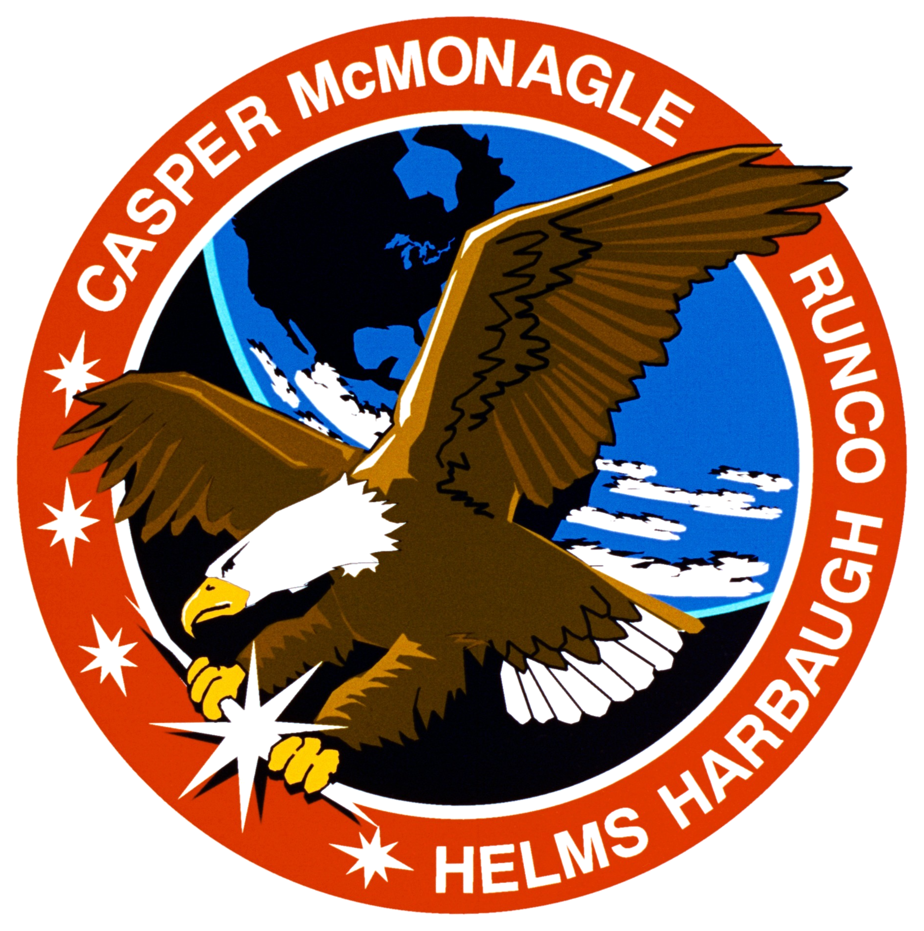 STS-54 Mission Insignia Designed by the crewmembers, the STS-54 crew patch depicts the Amefican bald eagle soaring above Earth and is emblematic of the Space Shuttle Endeavour in service to the United States and the world. The eagle is clutching an eightpointed star in its talons and is placing this larger star among a constellation of four others, representing the placement of the fifth Tracking and Data Relay Satellite (TDRS) into orbit to join the four already in service. The blackness of space -- with stars conspicuously absent -- represents the crew's other primary mission in carrying the Diffuse X-ray Spectrometer to orbit to conduct astronomical observations of invisible x-ray sources within the Milky Way Galaxy. The depiction of Earth showing North America is an expression of the crewmembers and NASA's intention that the medical and scientific experiments conducted onboard be for the benefit of mankind. The clouds and blue of Earth represent the crew's part in NASA's Mission to Planet Earth in conducting Earthobservation photography.